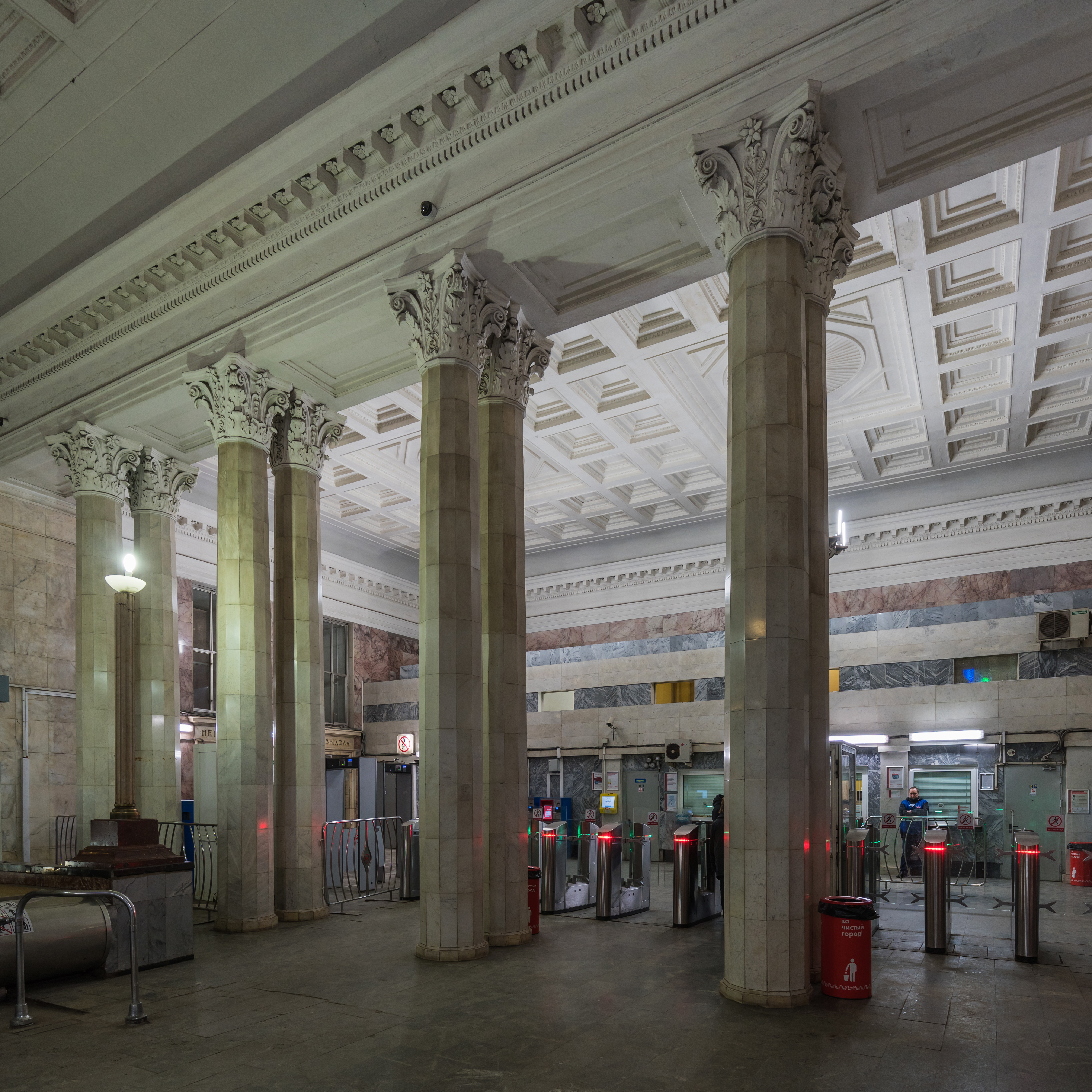 Belorusskaya (Green Line) metro station in Moscow, interior of entrance building